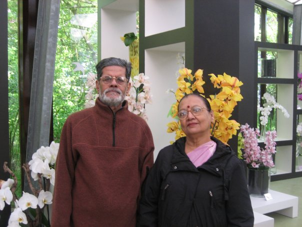 Malay in Delft, Holland during a vacation